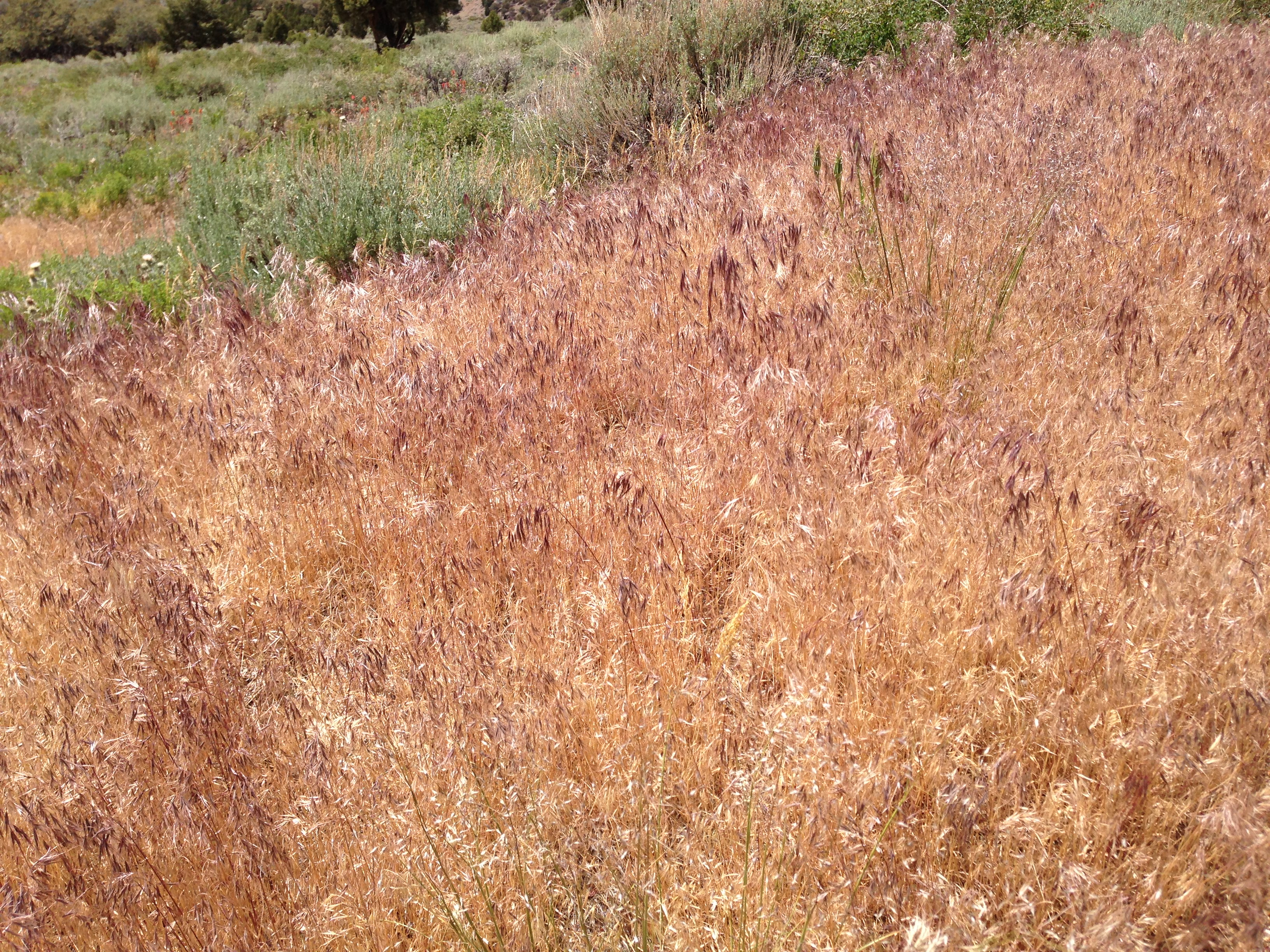 Invasive Bromus tectorum (Cheat grass) on Spruce Mountain, Nevada